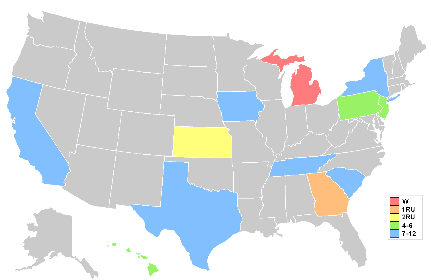 Map showing placements at the Miss USA 1993 pageant. Key on graphic shows colour coding for break down of placements.